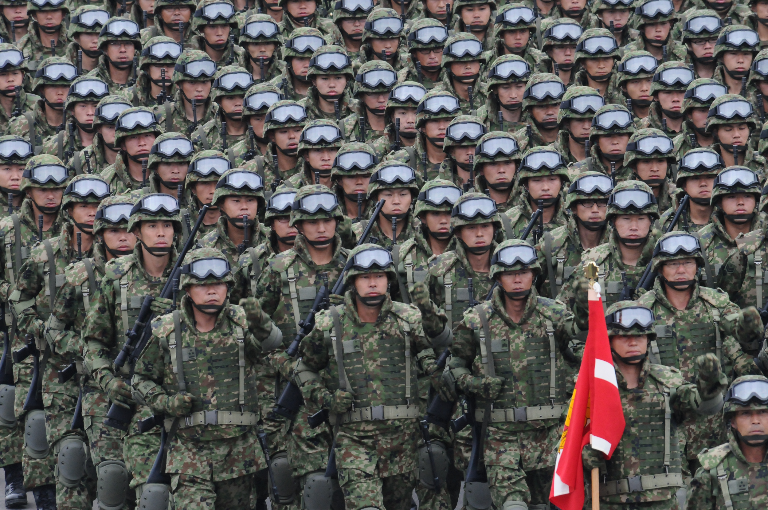 平成22年度観閲式(H22 Parade of Self-Defense Force)